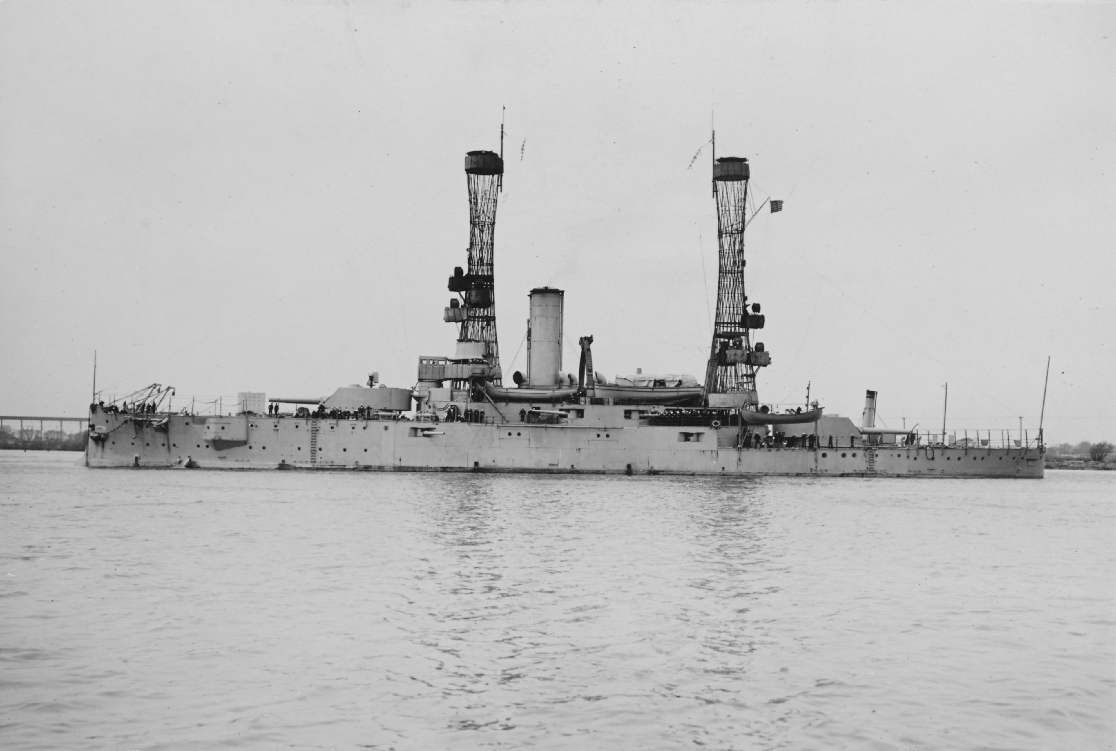 (Battleship # 7) Off the Philadelphia Navy Yard, 1919. Photographed by La Tour. Note that she only retains three six-inch guns on this side. U.S. Naval History and Heritage Command Photograph.